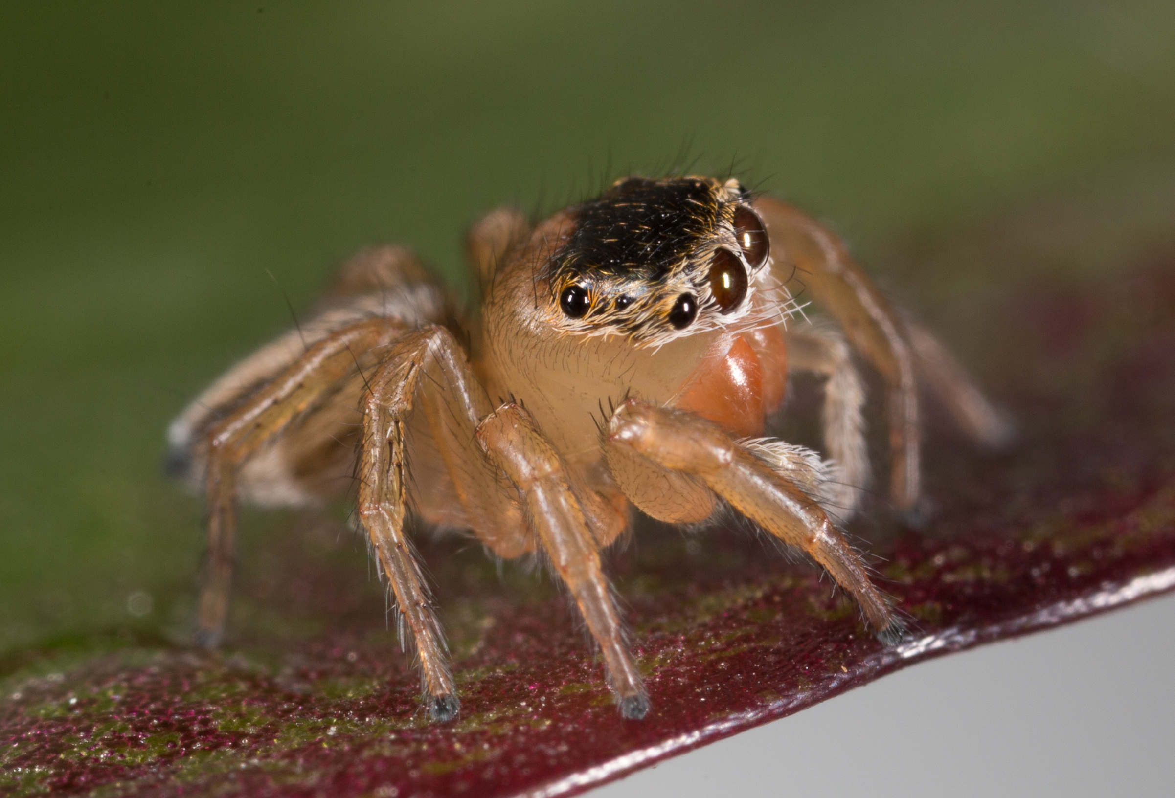 Small Striped Jumping Spider